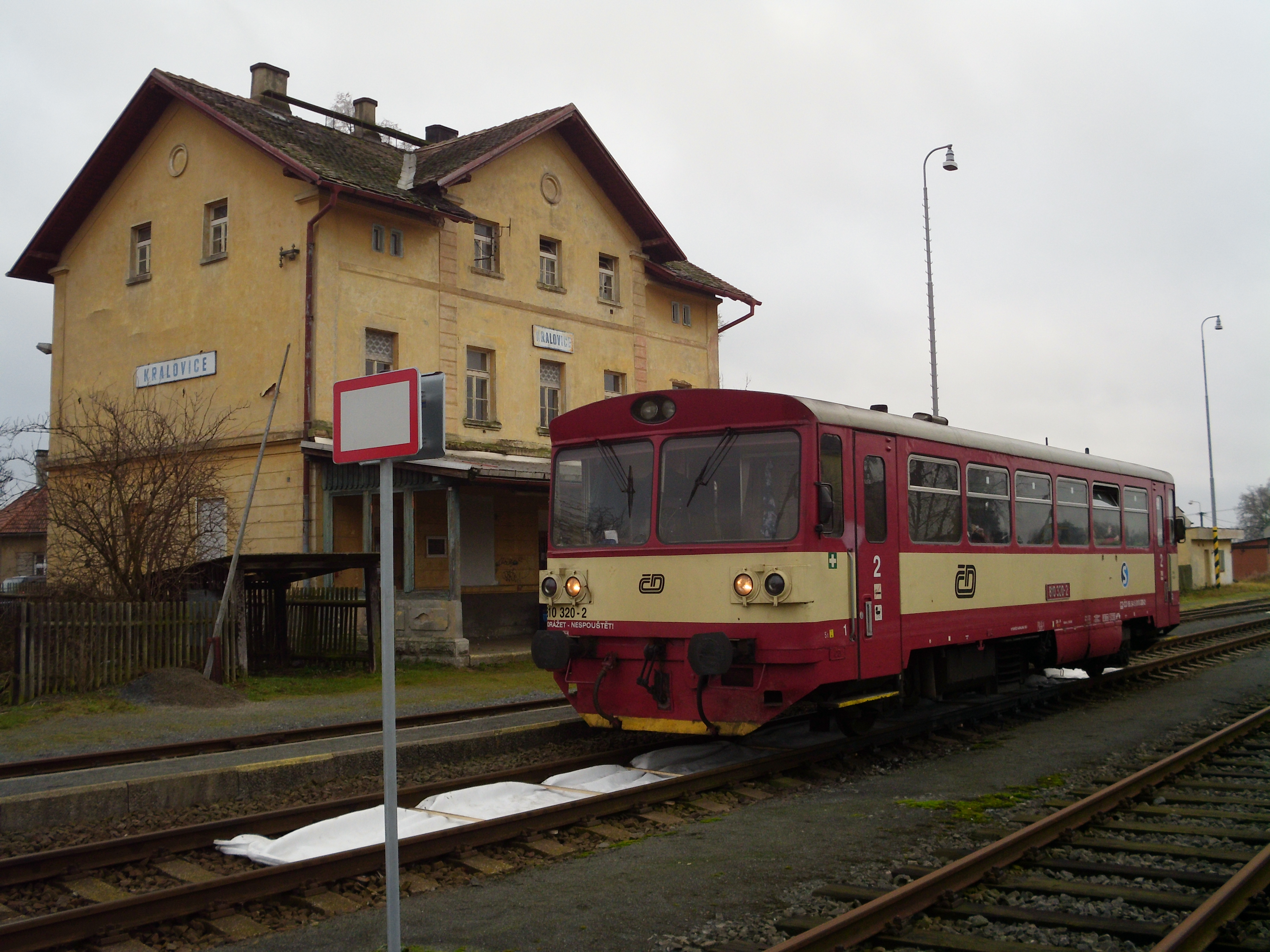 Diesel railcar 810.320-2 at a station in Kralovice u Rakovníka on Rakovník - Mladotice route in the Czech Republic.